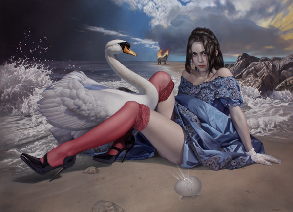 Girl in a blue dress sitting on the beach with a swan. A Trojan horse in the background.